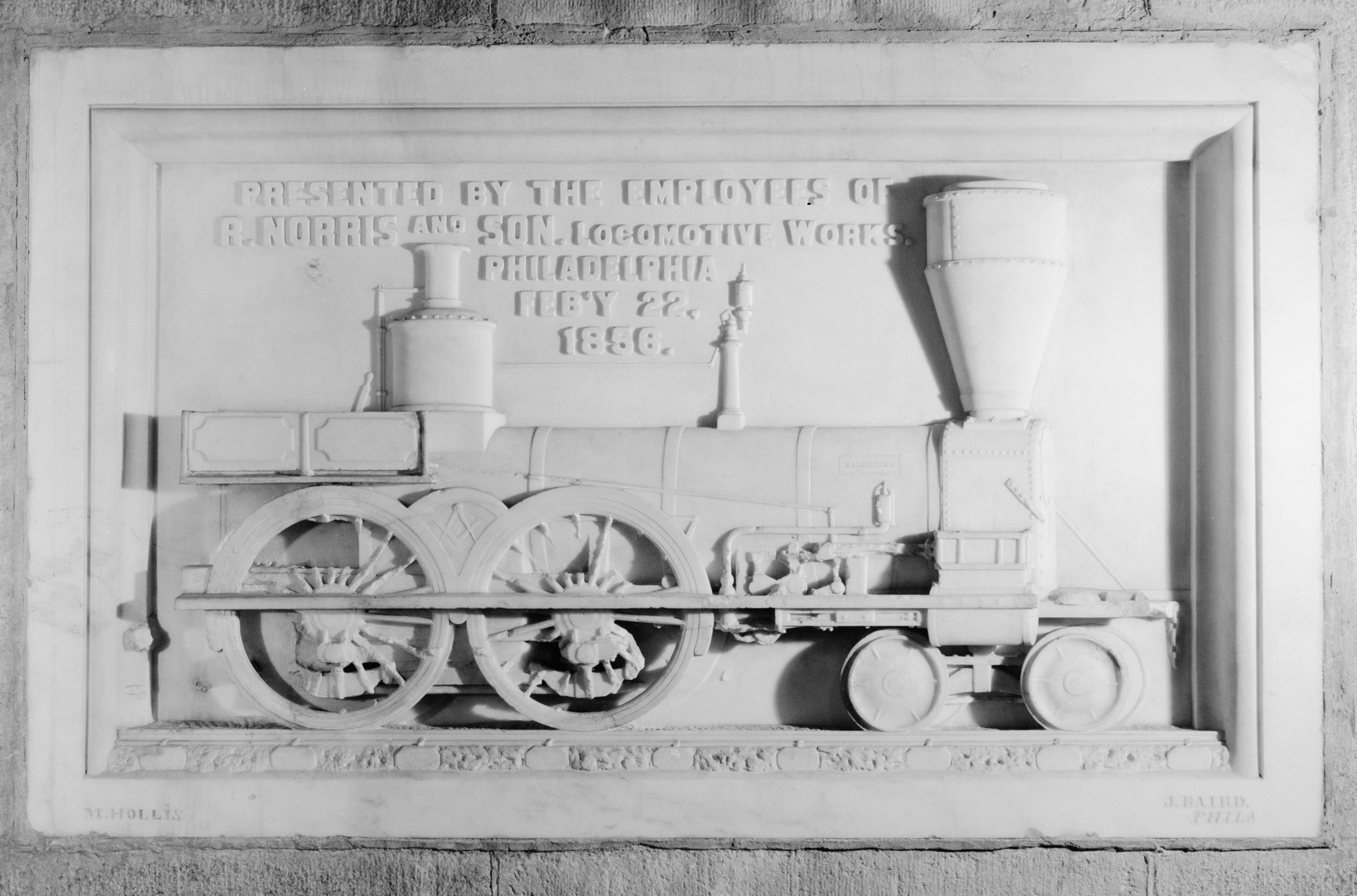 Commemorative Stone on level 270 of the Washington Monument donated by the workers of the Norris Locomotive Works in Philadelphia, Pennsylvania on Feb. 22, 1856. The stone depicts a locomotive named "Washington"; while the first notable locomotive produced by Norris carried that name, the locomotive depicted is of a much later design (a 4-4-0 with a balloon stack), more typical of the period of the stone. It appears to be heavily damaged by time. Cropped from the digital original.